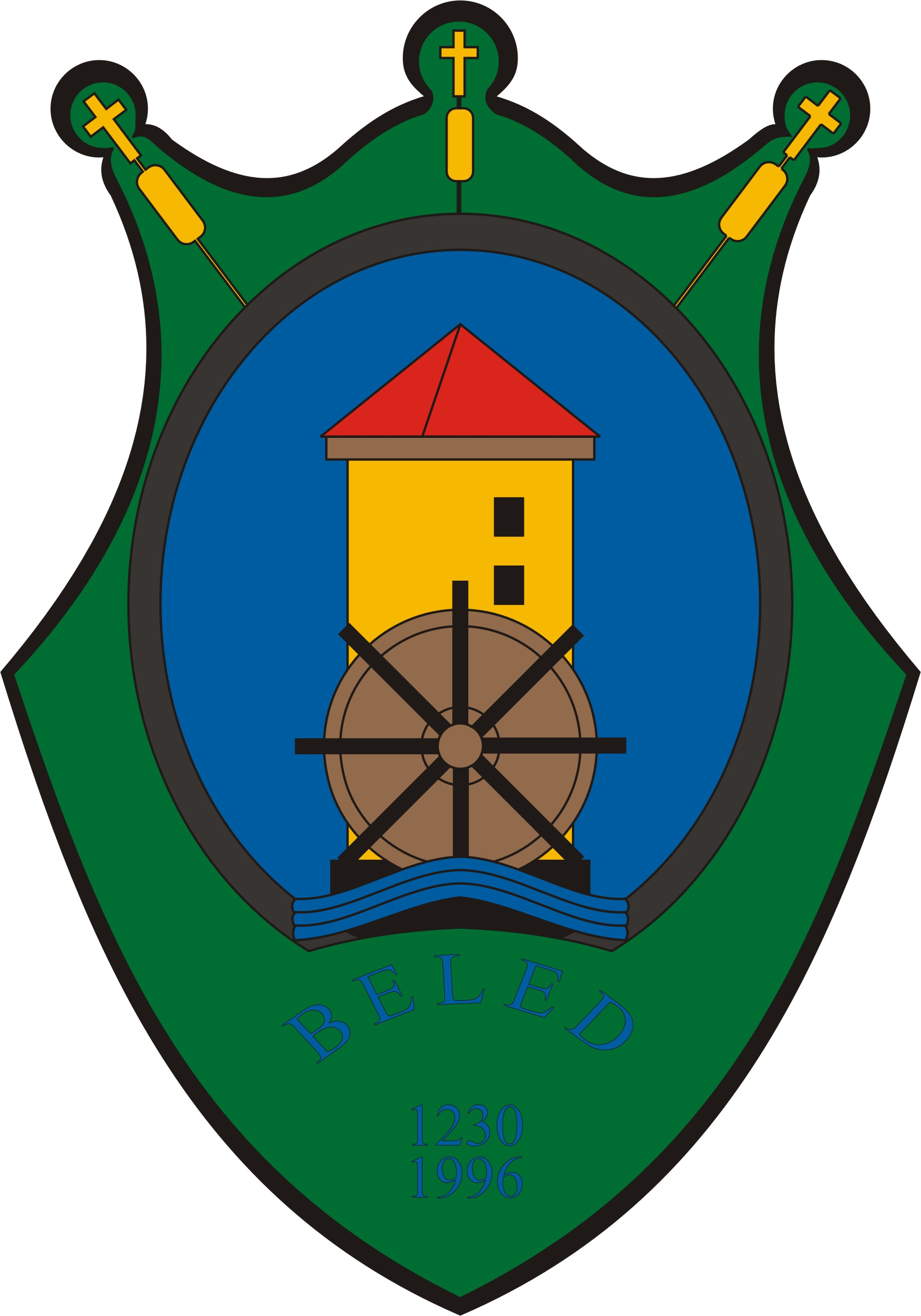 Coat of arms of Beled, Hungary